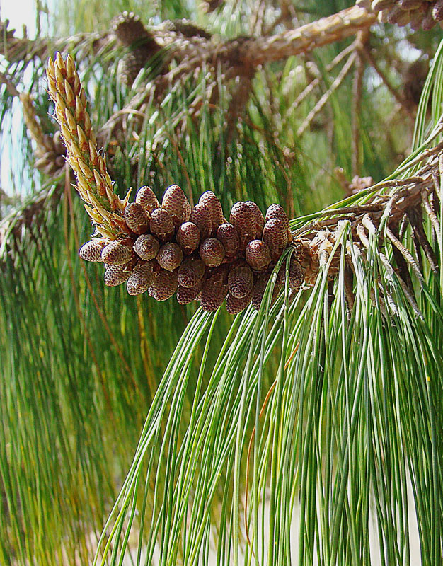 Pinus patula, pollen cones. Cultivated, UC Berkeley Botanical Gardens.